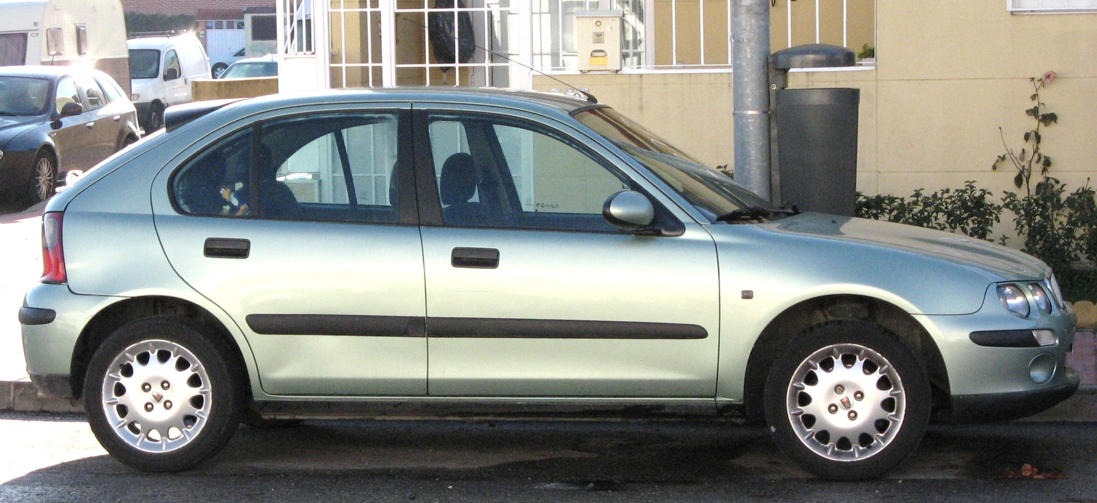 Rover 25